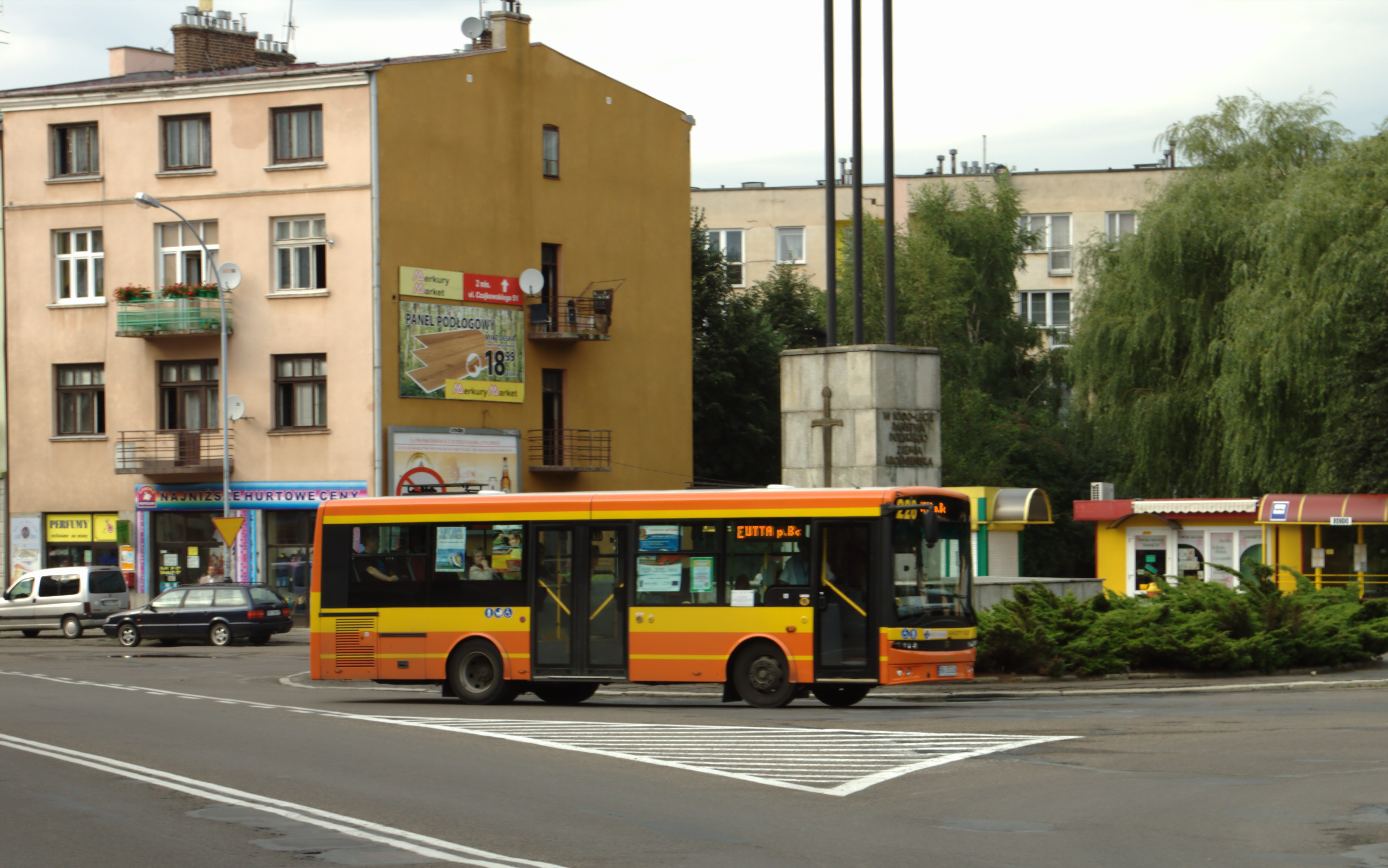 Autosan Sancity 9LE city bus (#226) in Krosno at Lwowska street - a small square. Subcarpathian (Podkarpackie) Voivodeship, Poland. Built 2011, MKS Krosno operator. This photo of Subcarpathian Voivodeship was taken during Wikiekspedycja 2011 set up by Wikimedia Polska Association.You can see all photographs in category Wikiekspedycja 2011. The making of this document was supported by Wikimedia Polska.